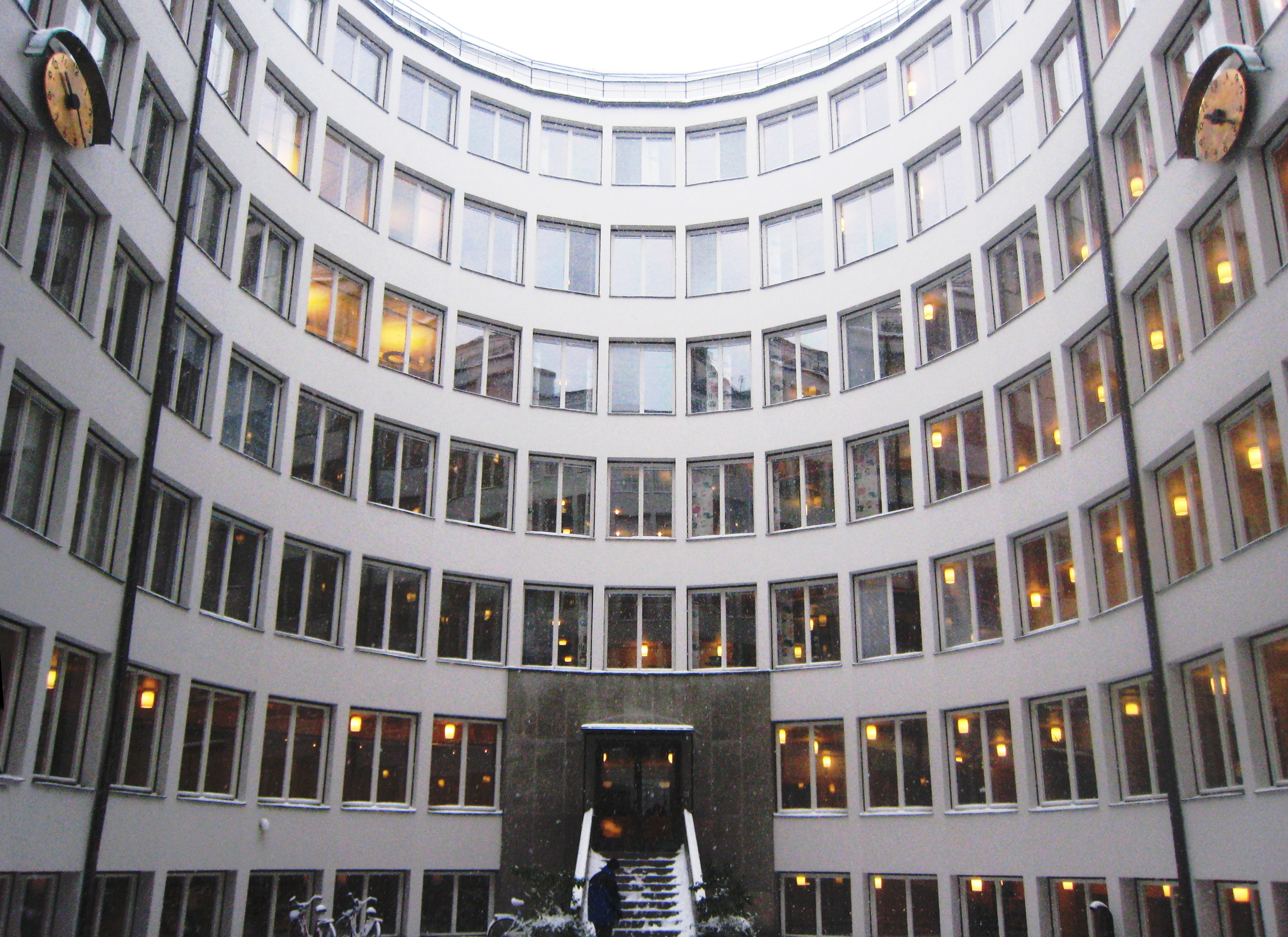 Riksförsäkringsverket november 24, 2008